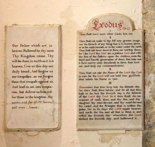 All Saints, Patcham, Sussex - Decalogue